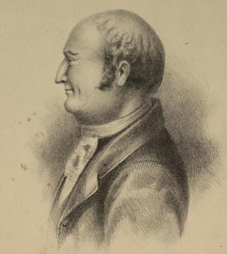 A portrait from the Welsh Portrait Collection at the National Library of Wales. Depicted person: Theophilus Jones – Welsh lawyer, known as a historian of Brecknockshire